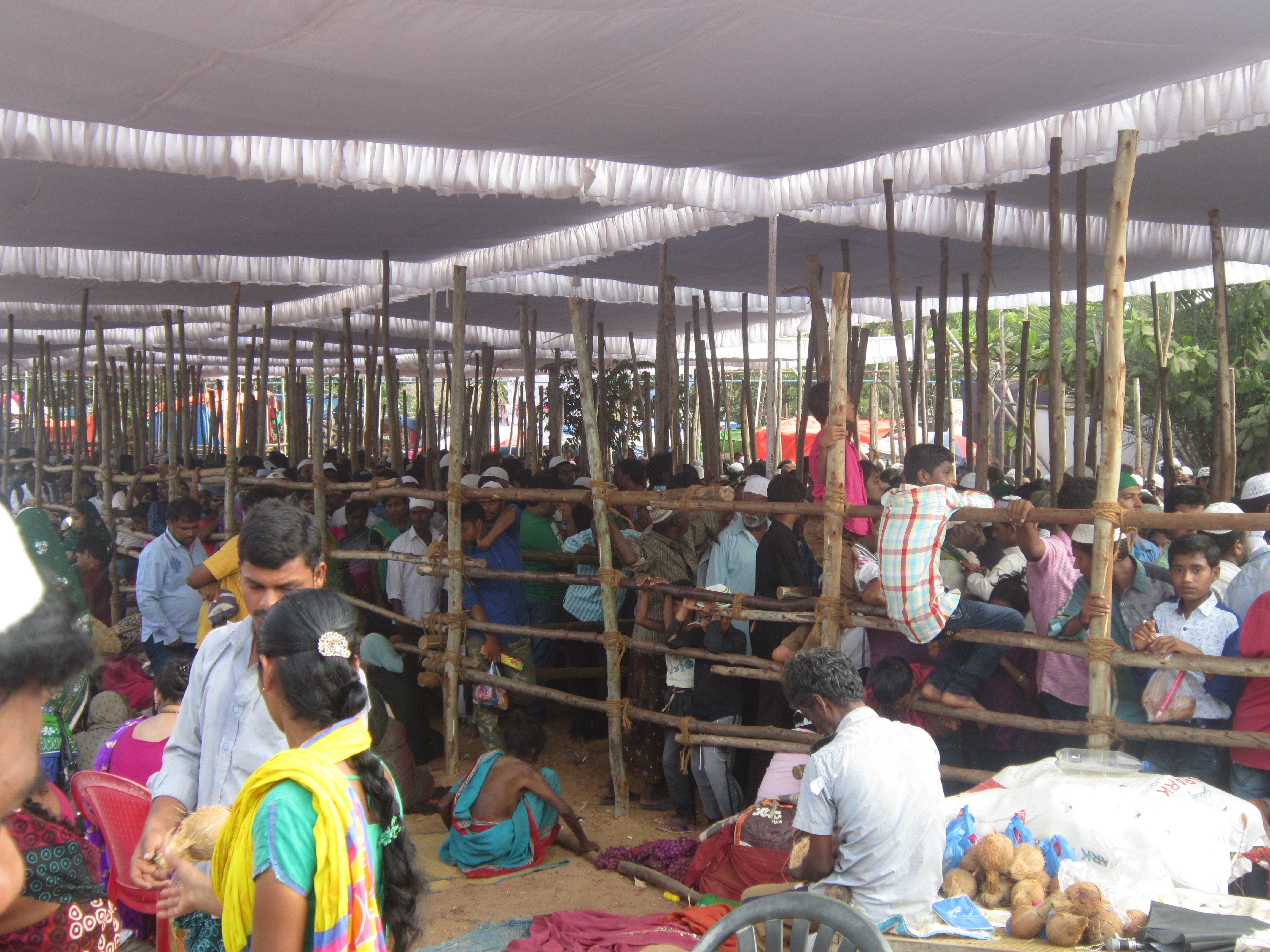 Pilgrims waiting in barracks for darashan of barashahid tombs